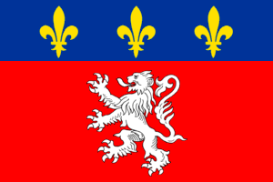 Flag of Lyon